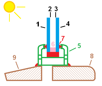 A sectioned diagram of an Insulated Glazed Unit: a fixed double glazed window within a frame, using the numbering conventions on the IGU wikipedia page